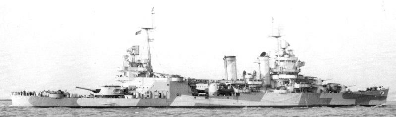 Photo of heavy cruiser San Franciso following her Aug-Oct 1944 refit at Mare Island Navy Yard, wearing Measure 33/13D camouflage